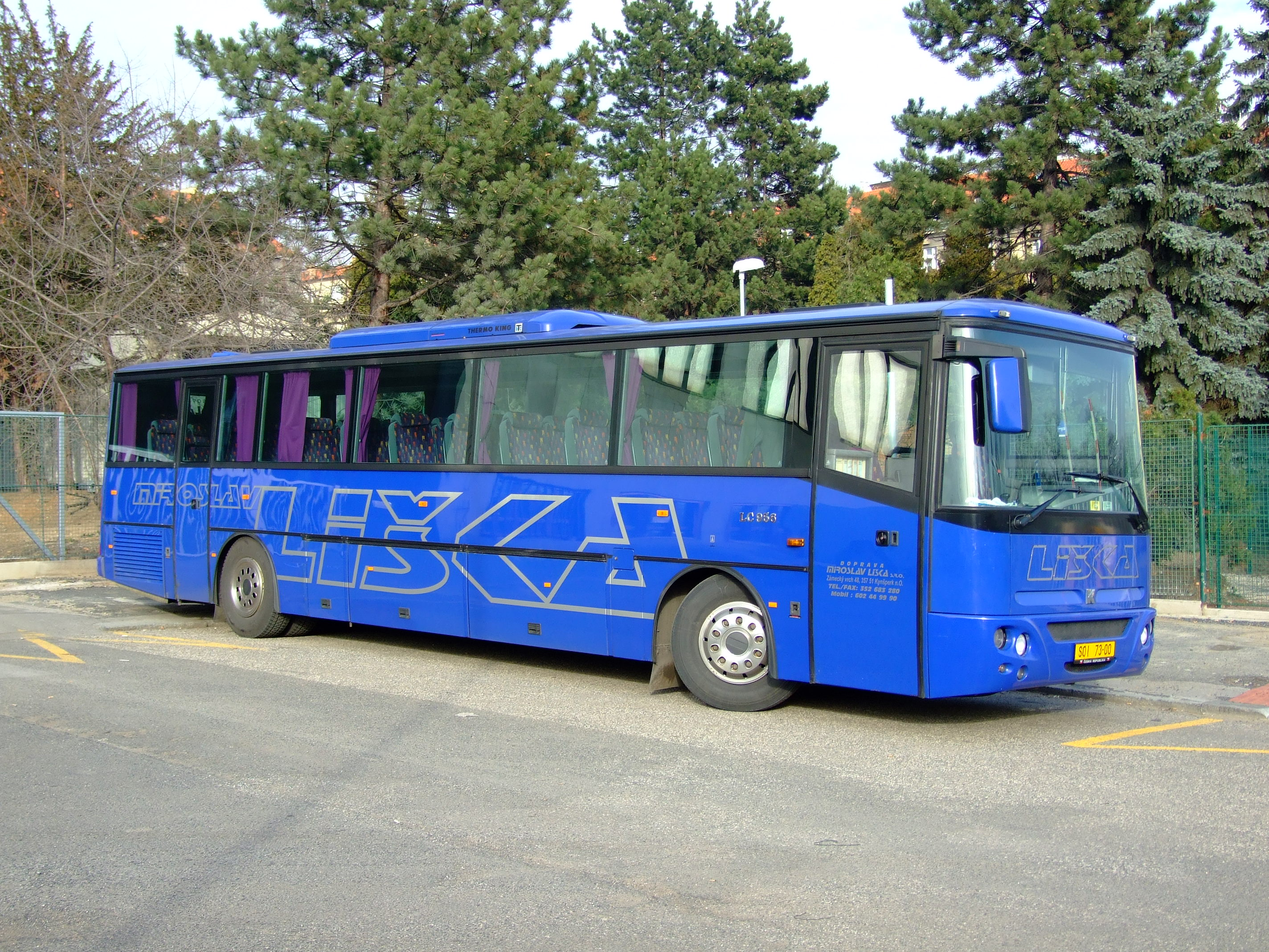 Bus Karosa LC 956 in Prague-Letná, near National technical Museum